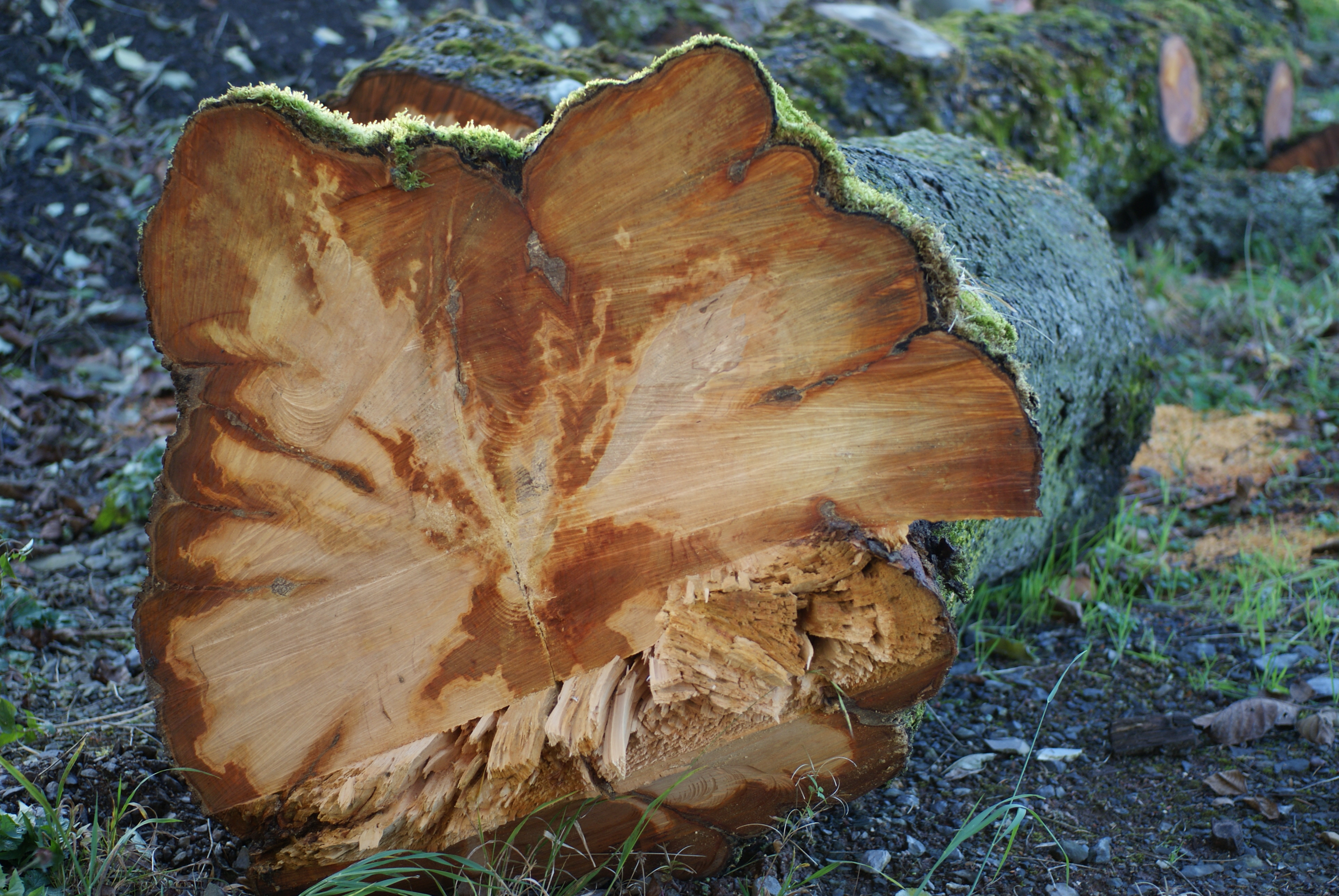 Cut trunk of a pear tree.